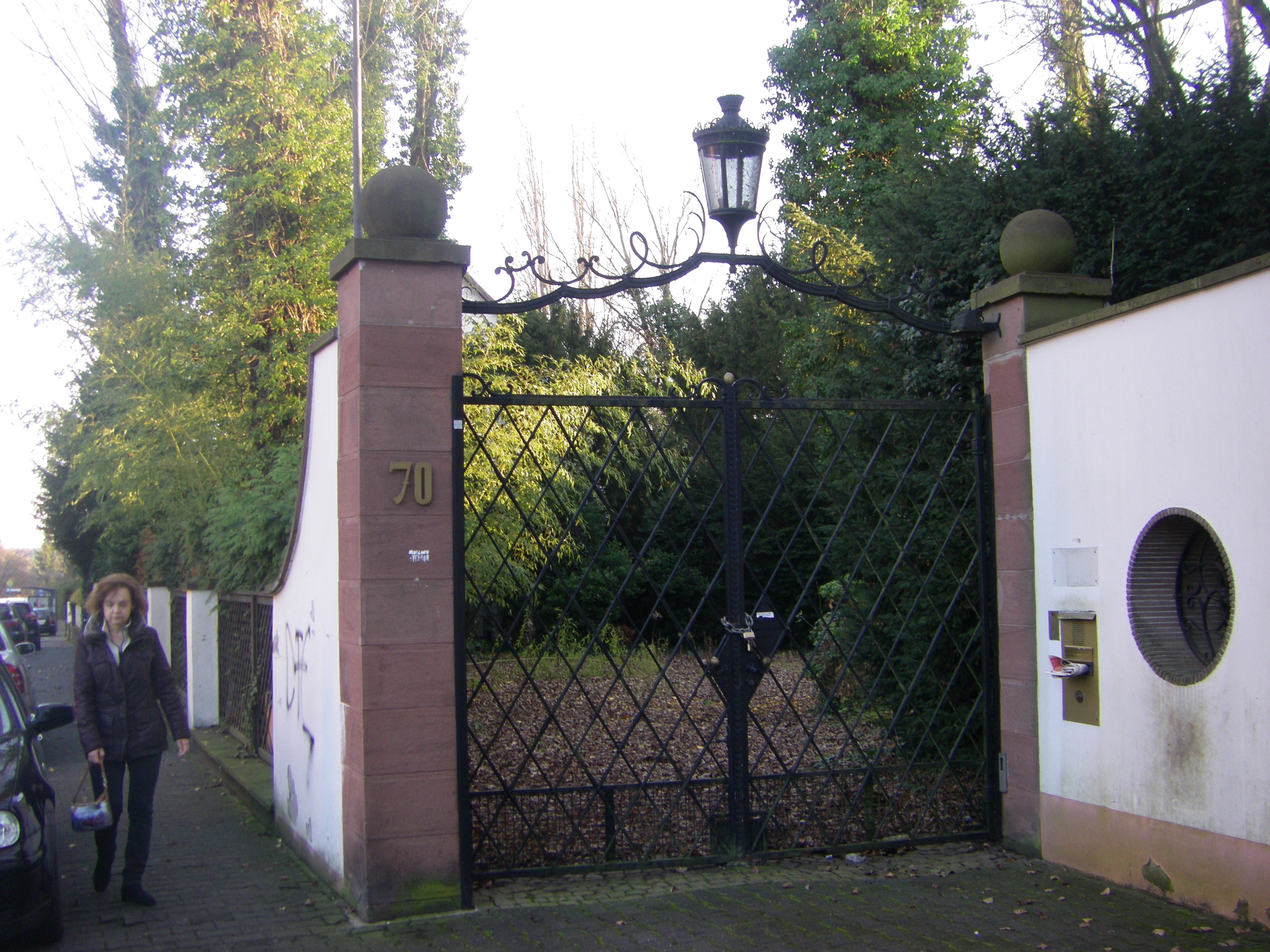 Entrance to the former estate of Bruno H. Schubert, once owner of Henniger brewery in Frankfurt-Sachsenhausen.